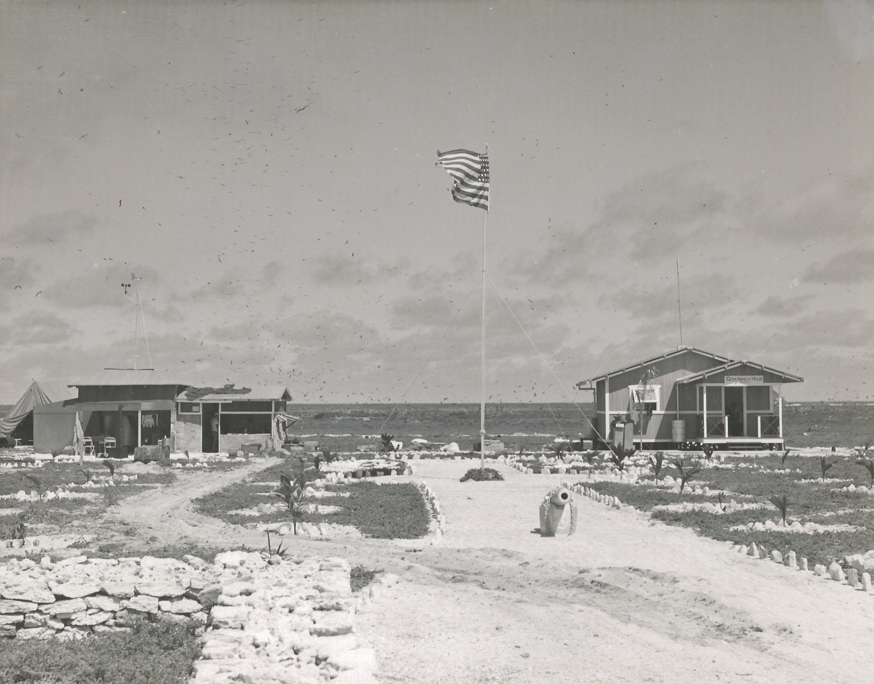 View of the camp at Howland Island during the American Equatorial Islands Colonization Project.